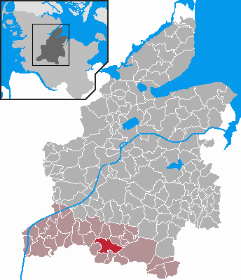 Locator maps of municipalities in Schleswig-Holstein - District Rendsburg-Eckernförde